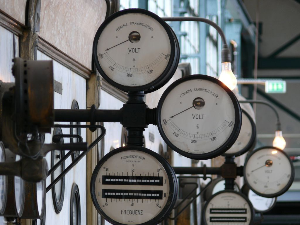 own image